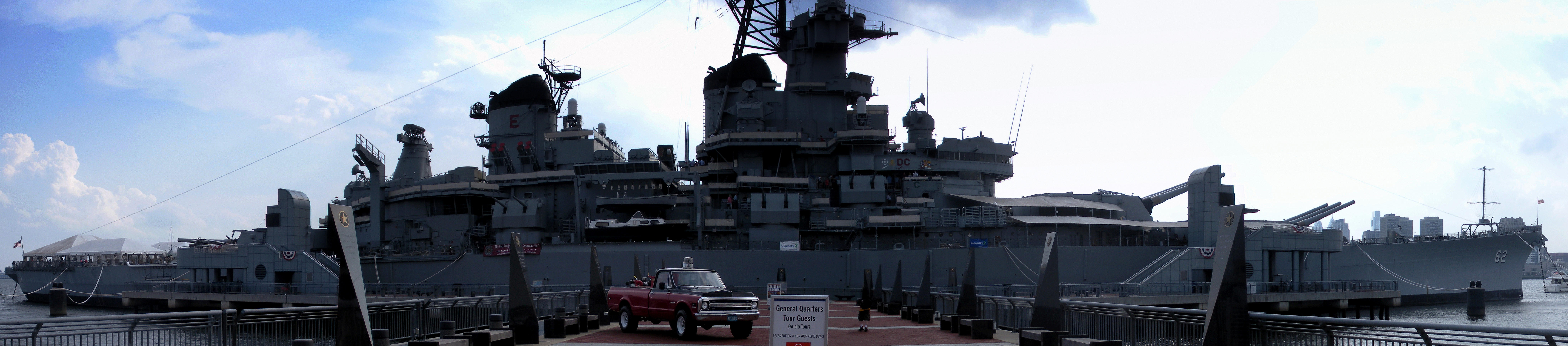 A panorama shot of the U.S.S. New Jersey at its home in the Delaware River in Camden, New Jersey.